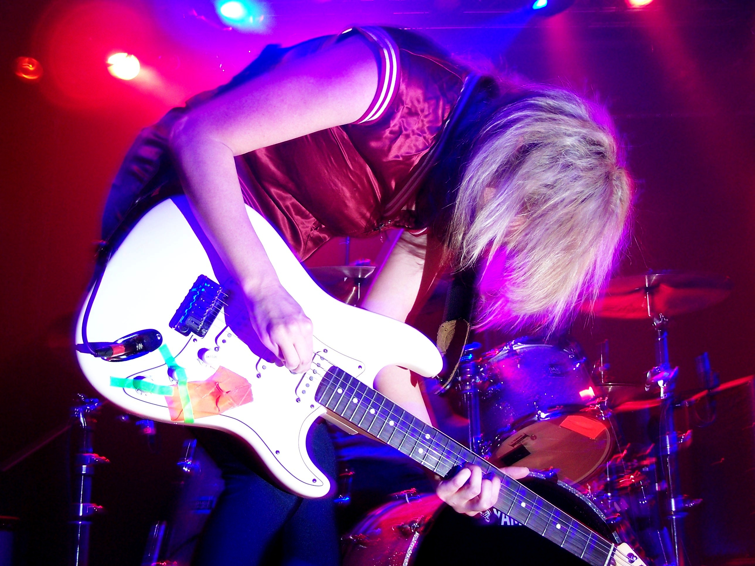 Photograph taken on October 23, 2008 at The Ting Tings concert at the Variety Playhouse in Atlanta, GA by Matthew Gibbons. Photograph is of The Ting Tings' lead vocalist, Katie White.